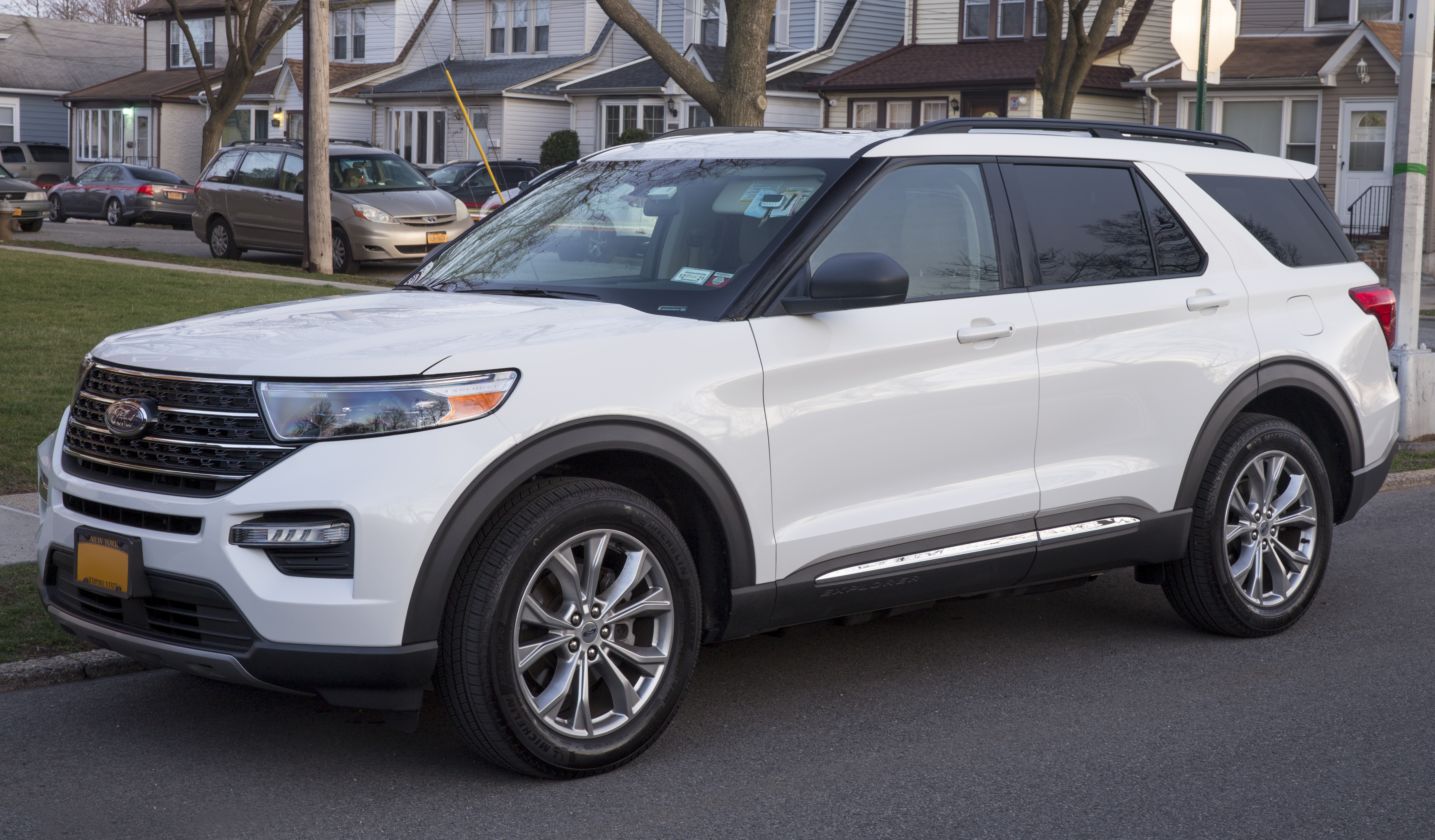 A 2020 Ford Explorer XLT AWD in Oxford White with Sandstone interior in Queens, NY. 300hp 2.3-liter turbo four.